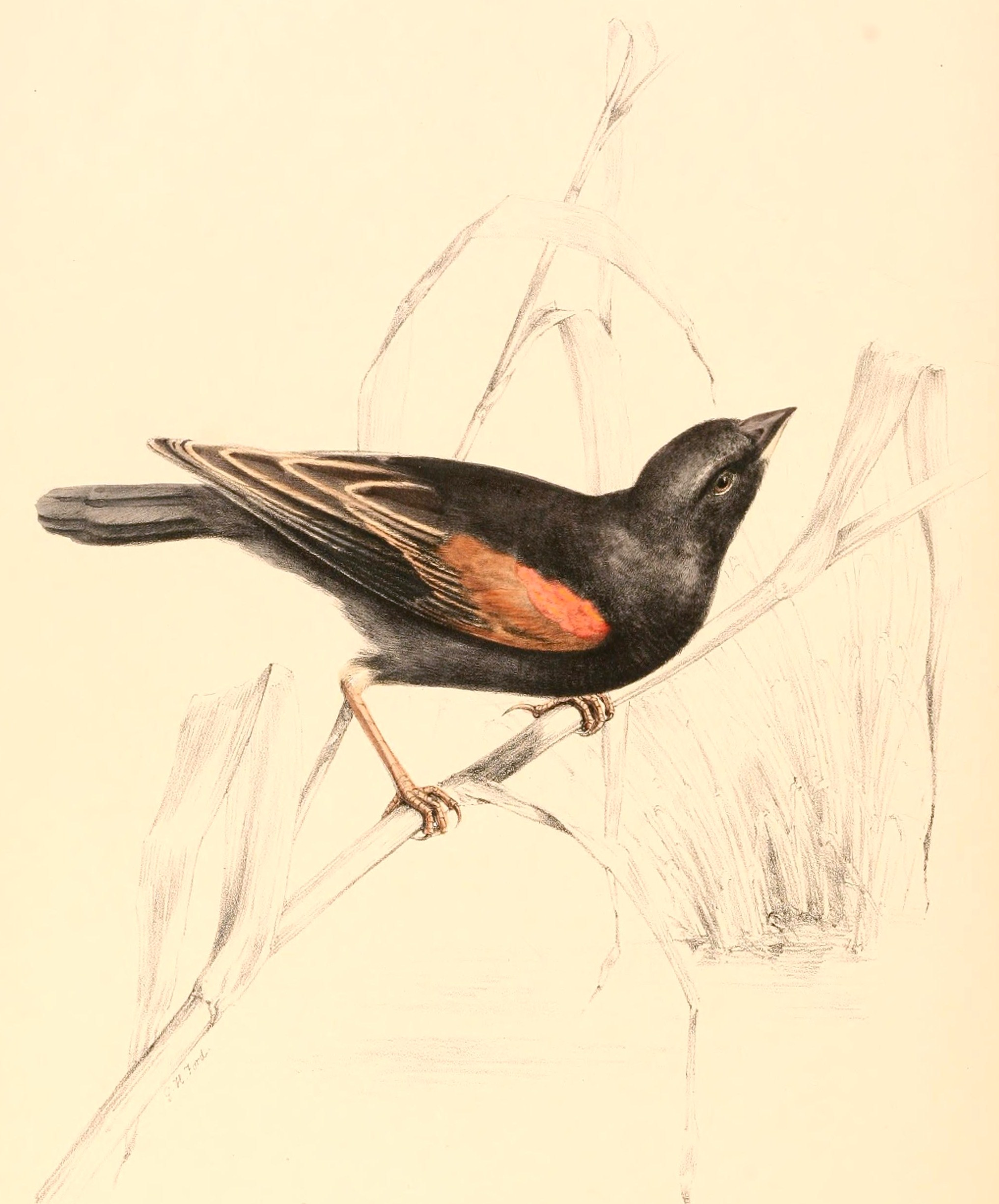 « Vidua axillaris » = Euplectes axillaris axillaris (Subspecies of Fan-tailed Widowbird) - male